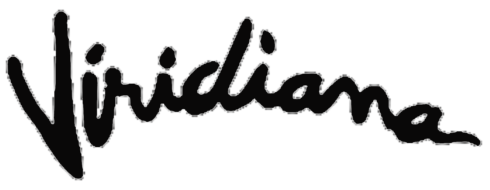 "Viridiana" a 1961 movie logo (black letters).